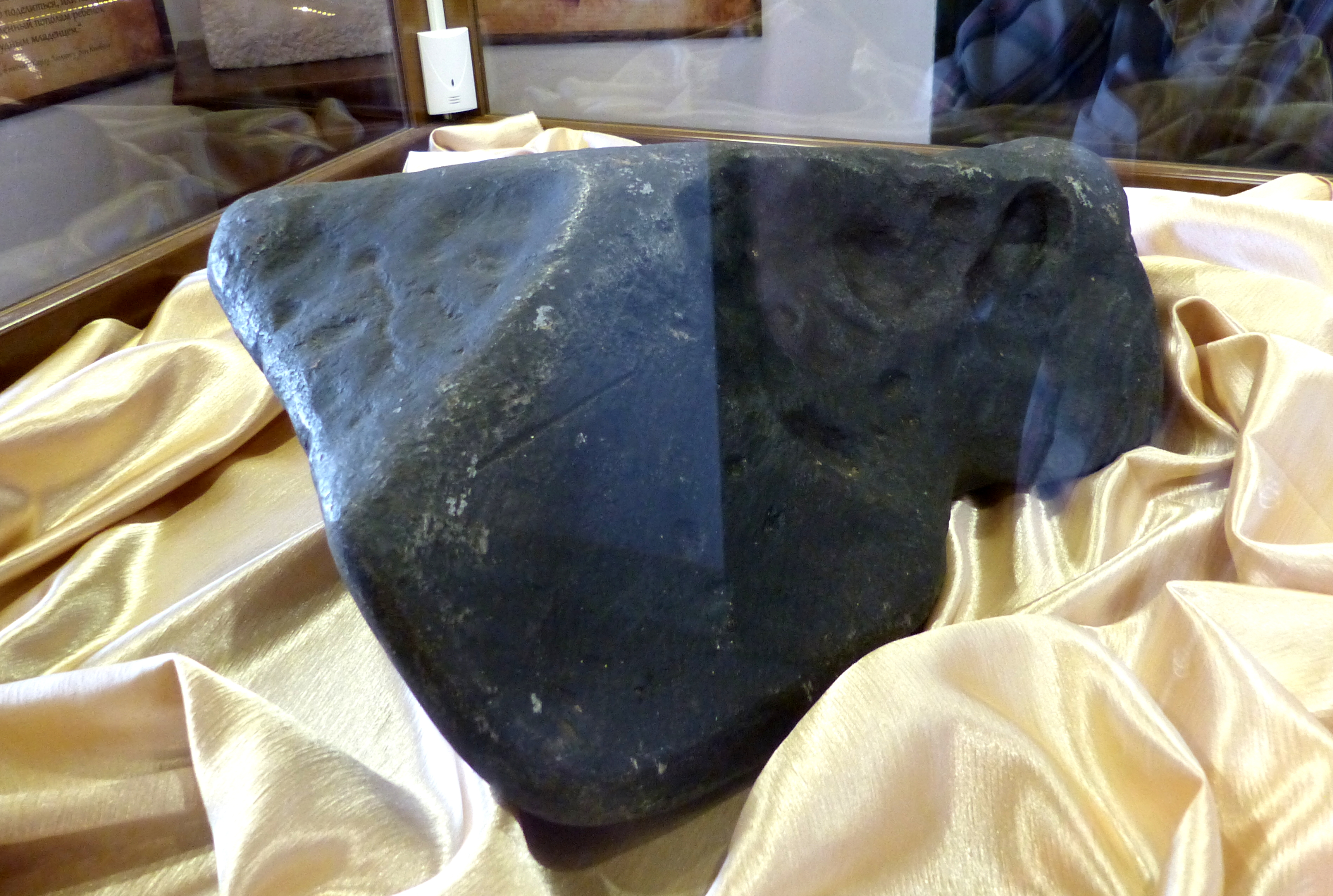 Loket ( Czech Republic ). Castle Museum - Elbogen meteorite.